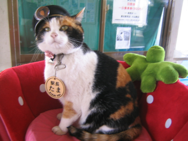 Tama, the stationmaster of Kishi Station, Wakayama Electric Railway, located in Kinokawa, Wakayama, Japan.